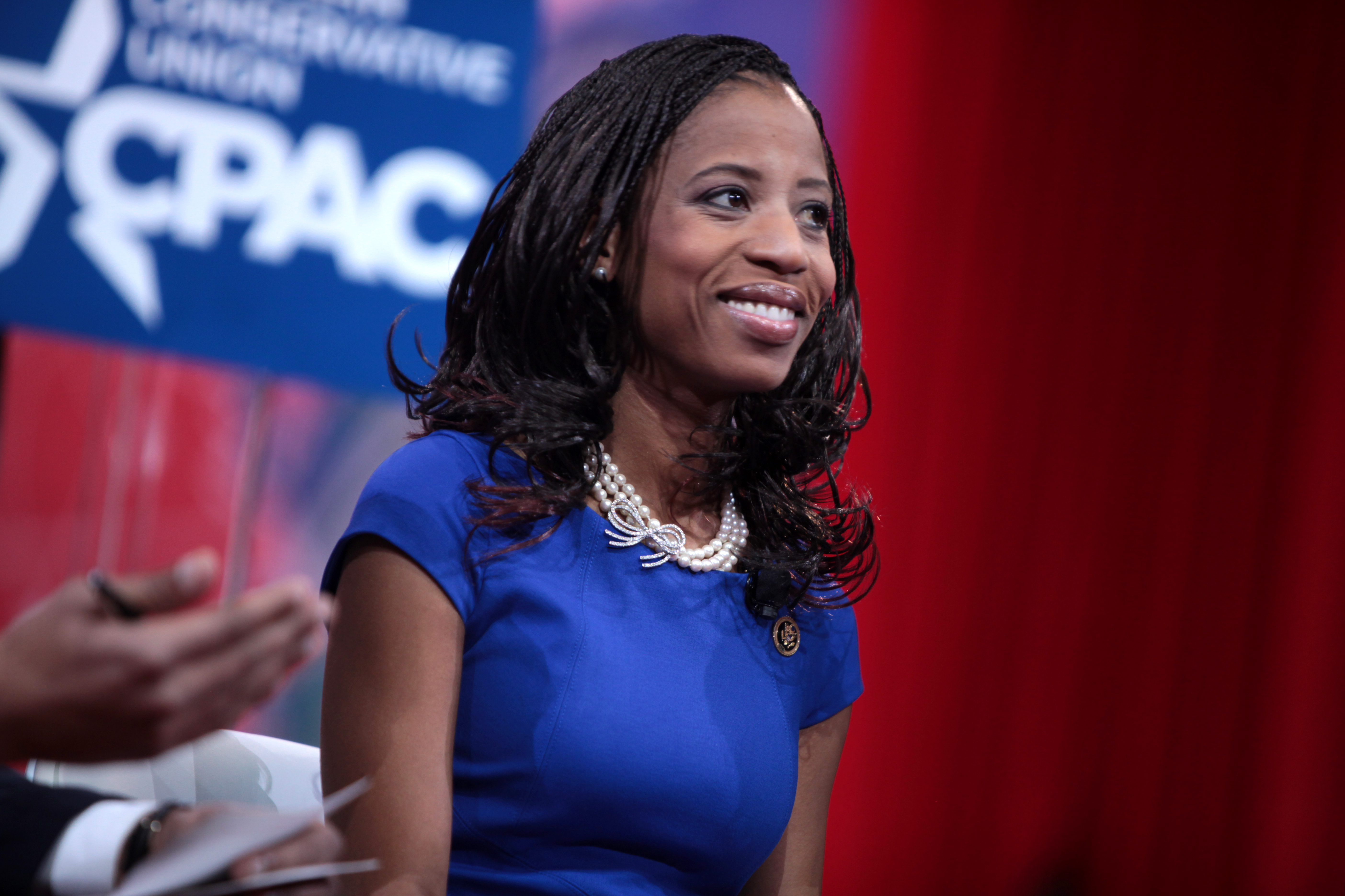 U.S. Congresswoman Mia Love of Utah speaking at the 2015 Conservative Political Action Conference (CPAC) in National Harbor, Maryland.